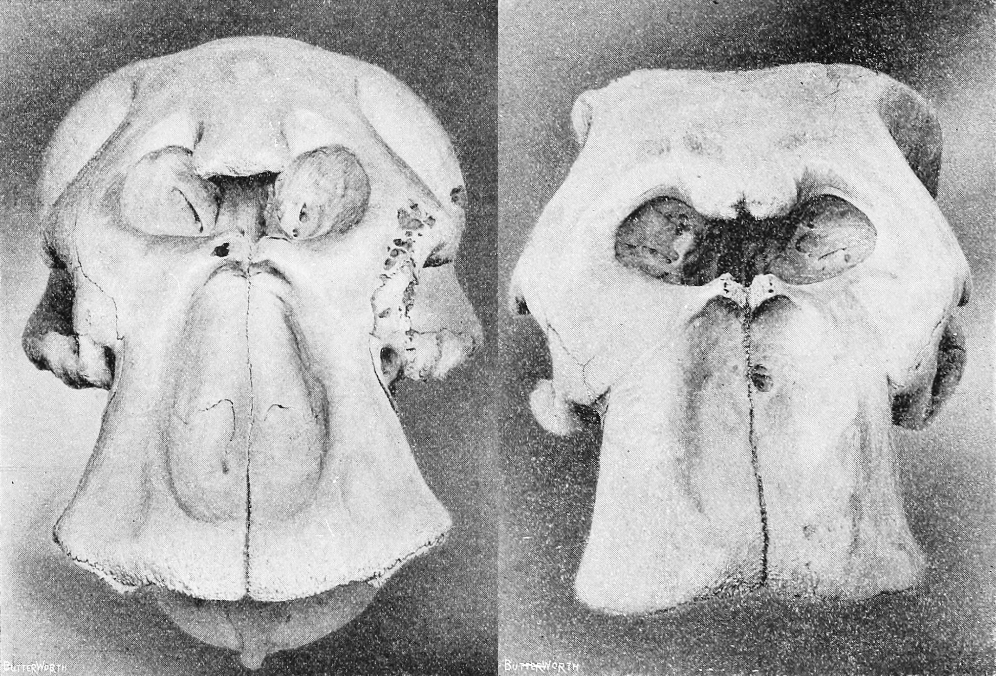 Skulls of adult African elephants in Natural History Museum, from frontal. Left: African Bush Elephant shot by A.Haig in northeastern Africa. Right: African Forest Elephant shot by Stanley C. Tomkins SW of Lake Albert (Orientale Province, Democratic Republic of the Congo).